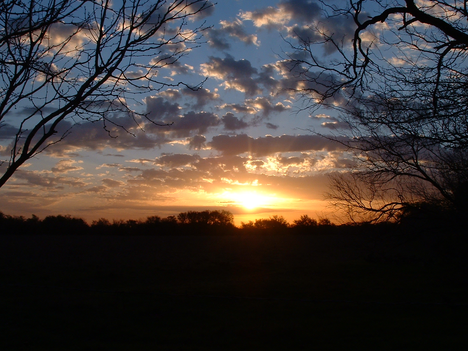 Photo of sunrise taken just north of Lockhart, Texas